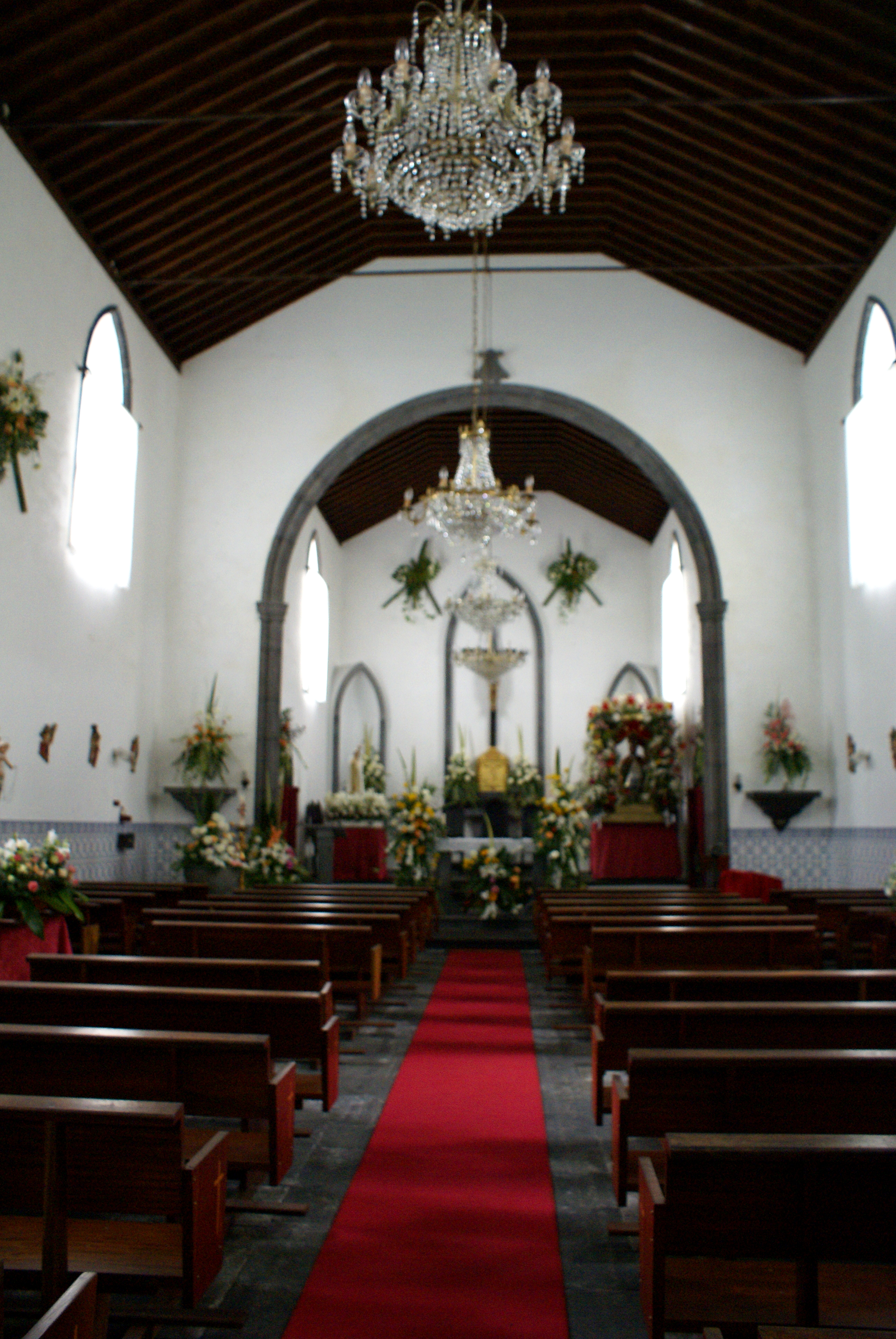 Nave of the Church of São Nicolau, Sete Cidades, Ponta Delgada, São Miguel (Azores), Portugal